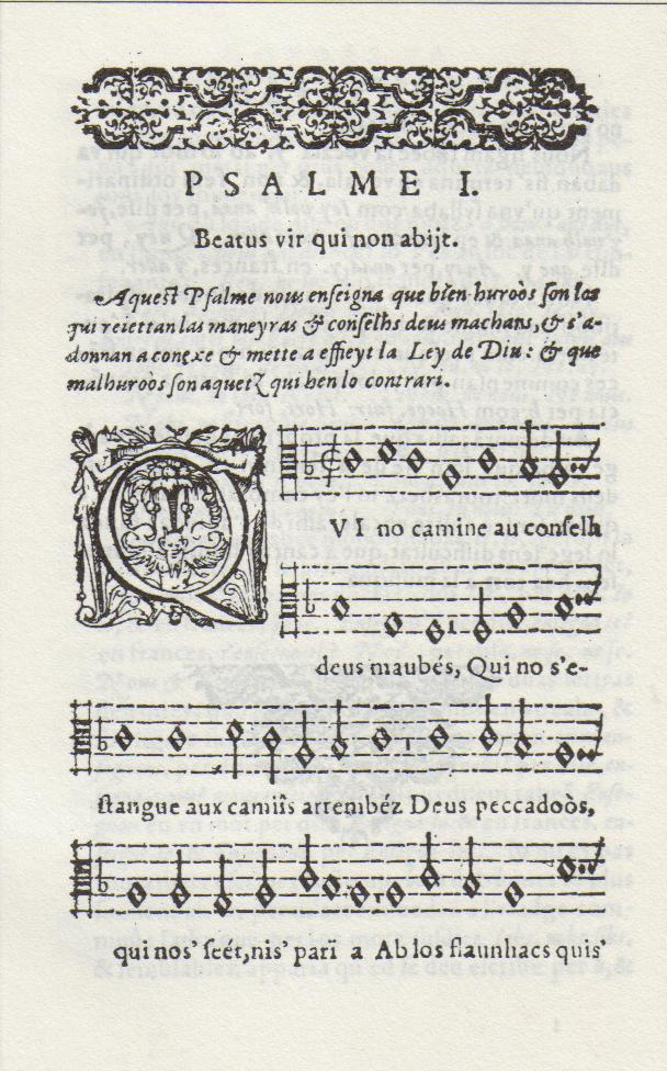 1583 edition of david Psalms tranlated in occitan-bearnese language verses